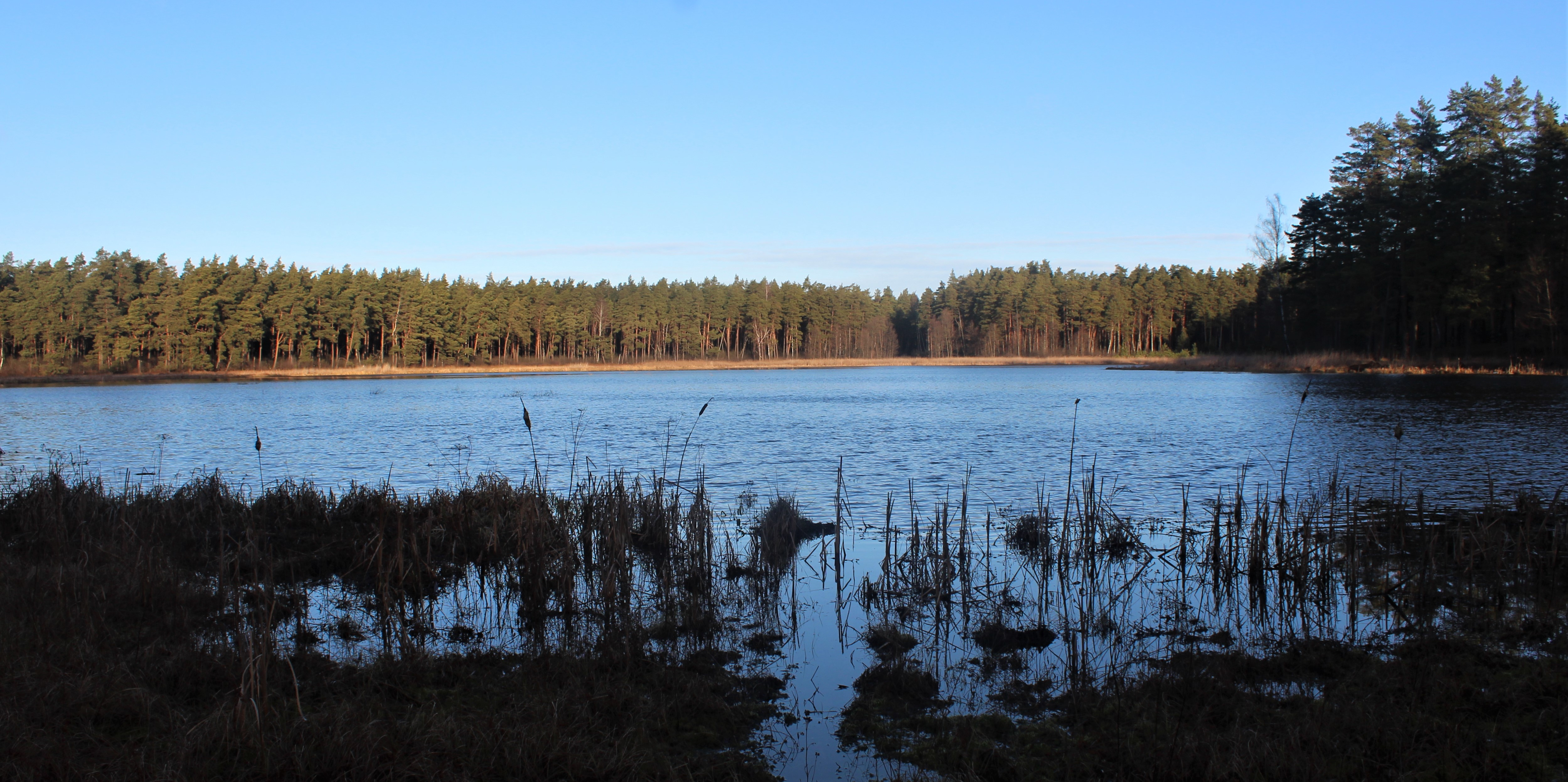 Līņezers, Garkalne parish, Latvia, 31.12.2019. View from S.